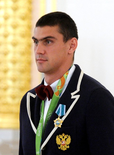 Vladimir Putin presented state awards to the Russian athletes who won gold medals at the 2016 Olympic Games in Rio de Janeiro (Brazil).